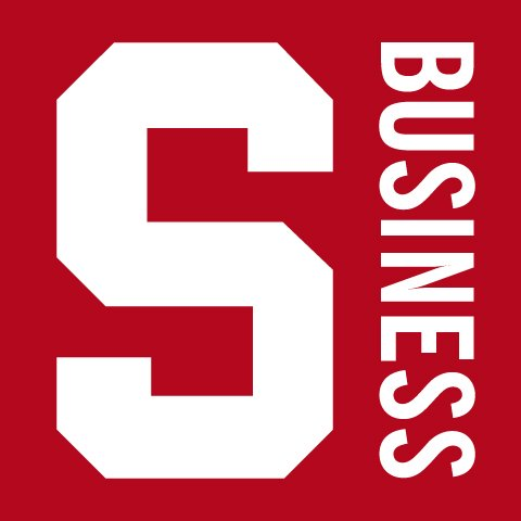 Stanford GSB Logo